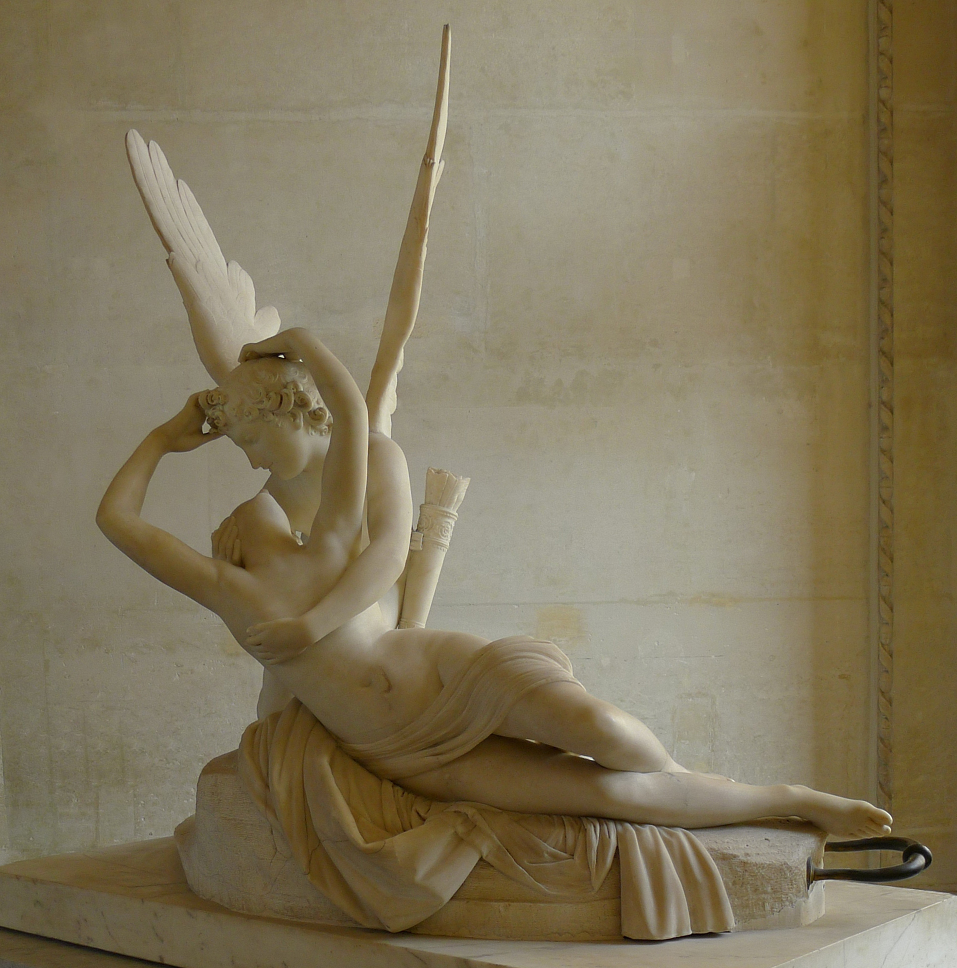 Amor (Cupid) kisses Psyche by Antonio Canova, Louvre